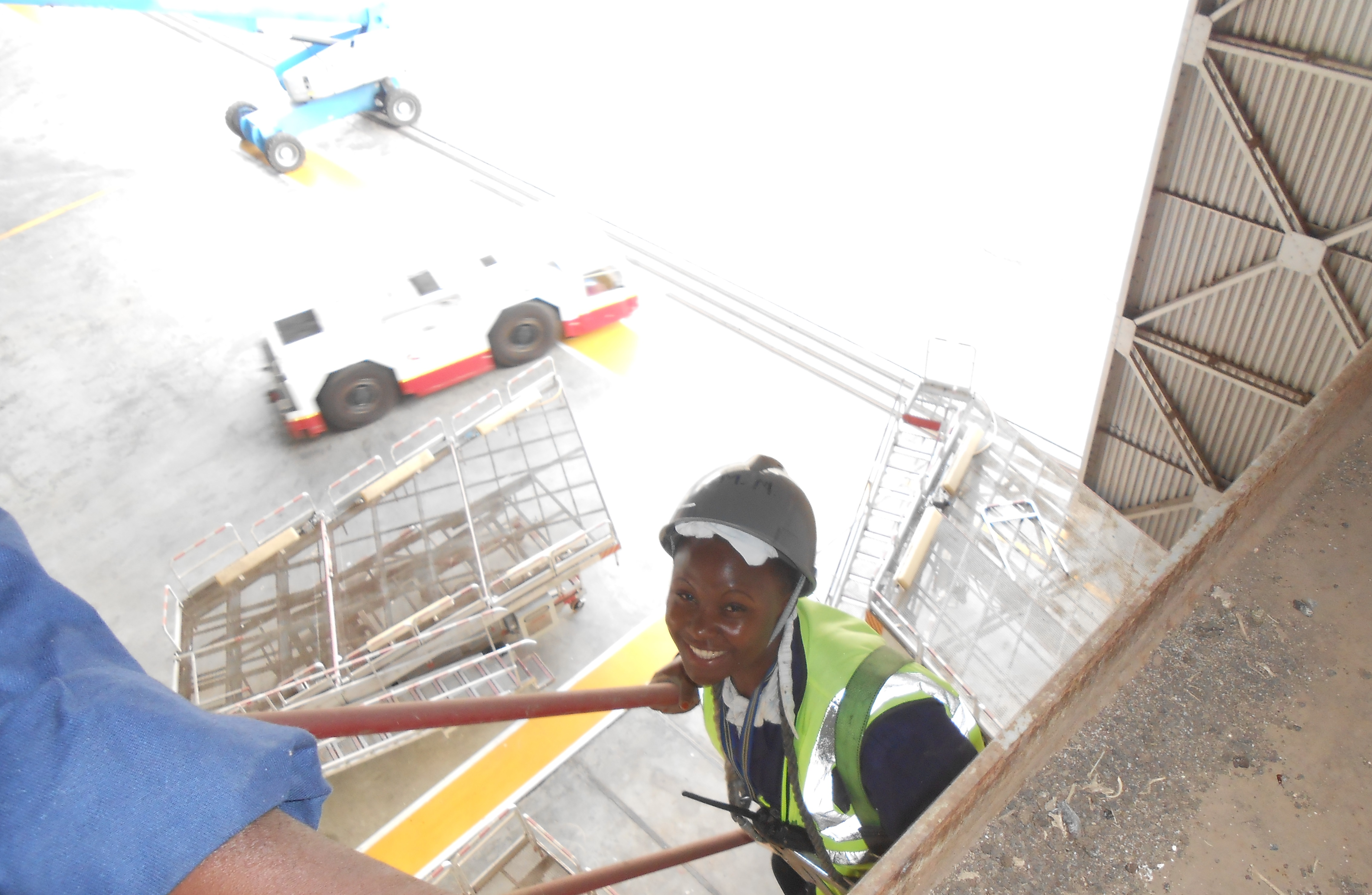 This is an image of "African people at work" from Kenya